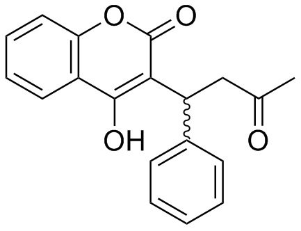 (RS)-Warfarin, a first generation coumarin anticoagulant.